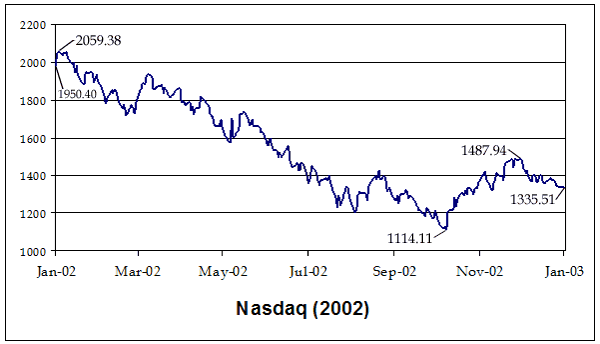 Chart of the Nasdaq Composite during 2002. Source: Yahoo! Finance Values graphed in Microsoft Excel and edited with Adobe Photoshop. Image released into public domain by User:Minesweeper.